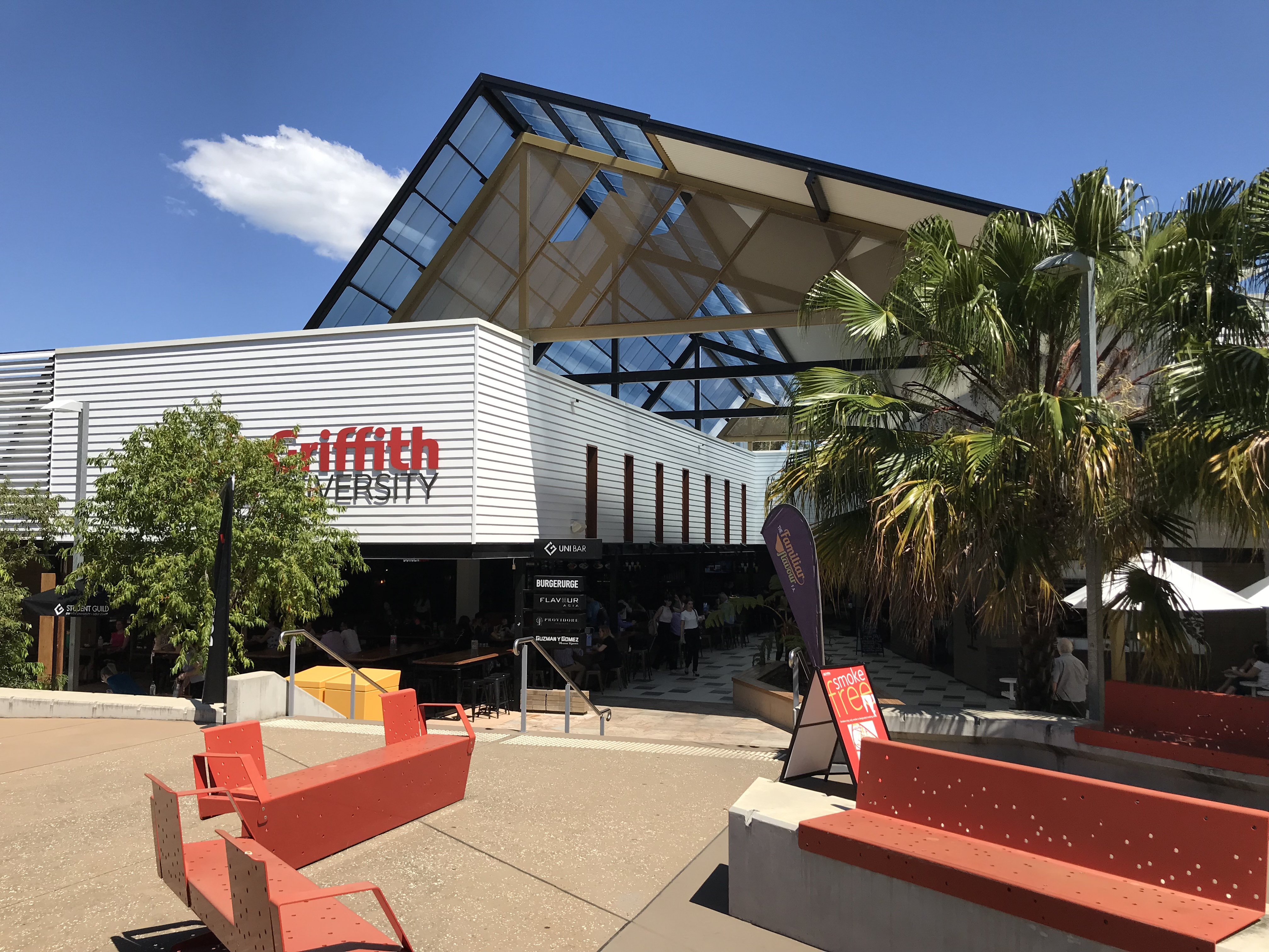 Food court at Griffith University Gold Coast Campus